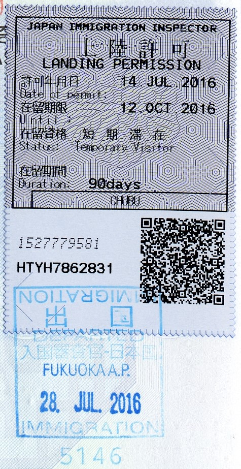 Temporary visitor landing permission sticker issued at Chubu international airport and exit stamp at Fukuoka international airport